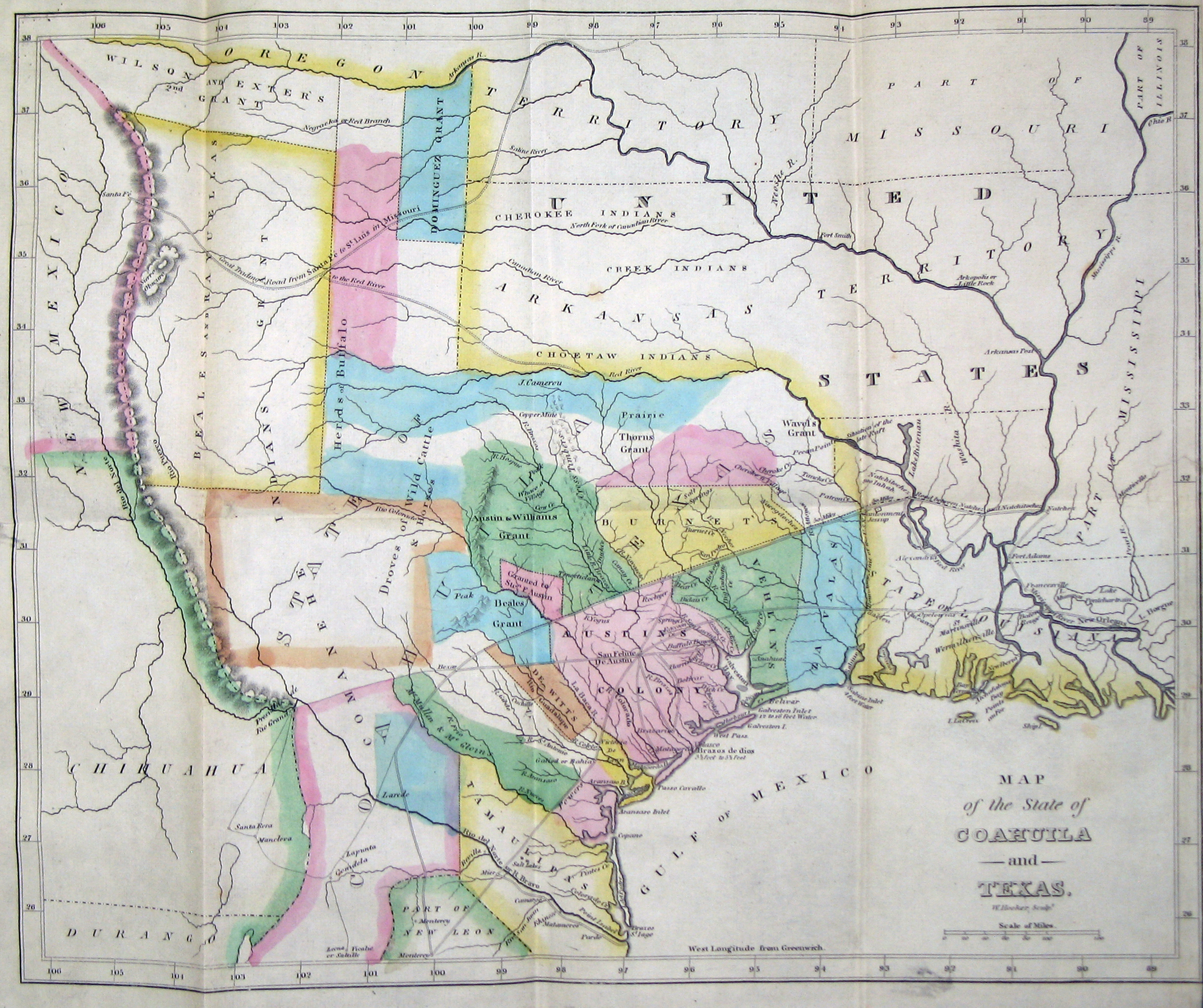 Philadelphia engraver, printer, map publisher, and instrument maker William Hooker's Map of Coahuila and Texas first appeared in an 1833 promotional book on Texas by Mary Austin Holley (1784-1846), a first cousin of the famous Texas colonizer Stephen F. Austin. Holley and her publisher, Armstrong & Plaskitt of Baltimore substituted Hooker's map when Henry S. Tanner, the publisher of Stephen F. Austin's large map of Texas, refused to allow the latter to be used in the book. This later colored version Hooker's map appeared in an anonymous travel book on Texas sometime attributed to a certain "M. Fiske" of Mobile, Alabama. The author had sailed from New Orleans in March 1831 and had arrived in Brazoria (incorrectly spelled "Brazaria" on the map) to examine a large tract of land he had purchased from the Galveston Bay and Texas Land Company. This 1834 map contains all the details of the earlier 1833 version but also refers to John McMullen and James McGloin's grant (contract awarded in 1828), James Power's grant (also awarded in 1828) — both in south Texas — as well as cryptic references to "J. Camerou" in North Texas (John Cameron, who was awarded a contract in 1827) and "De Leon" (Martin De Leon, awarded a contract in 1824). Other new details include "peaks in the west", "Presidio de Rio Grand" [sic], additional towns across the Rio Grande in Chihuahua and Coahuila, the Cross Timbers, "Tenoxticlan" (Fort Tenoxtitlan, constructed for the Mexican army in 1830), "Herds of Buffalo" and "Droves of Wild Cattle & Horses" (phrases copied directly from the Austin-Tanner map), Comanche Indian lands in the west, and Cherokee, Creek, and Choctaw Indian lands north of the Red River.